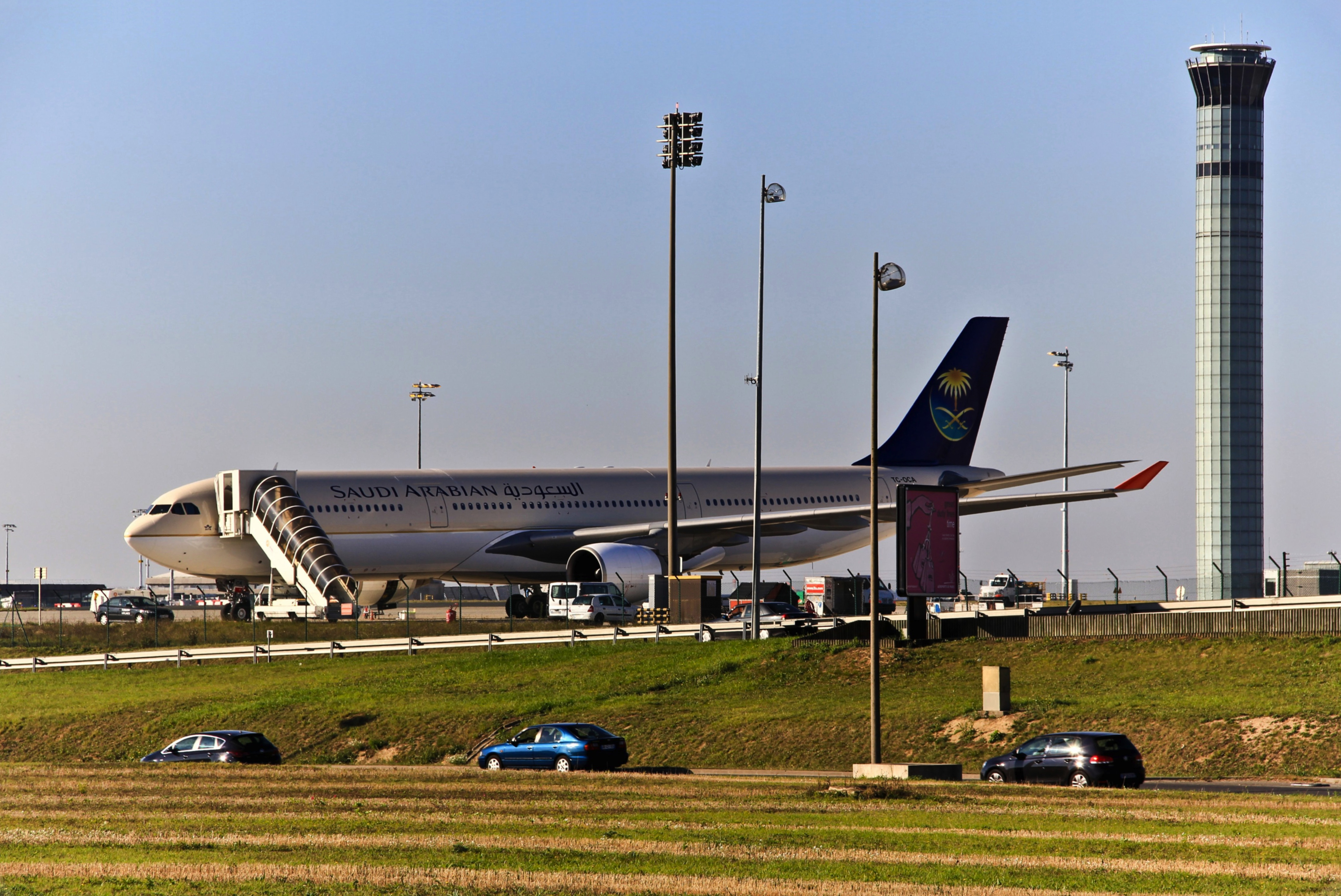 Airbus A330-300 of Saudi Arabian Airlines at Paris-Charles de Gaulle Airport.